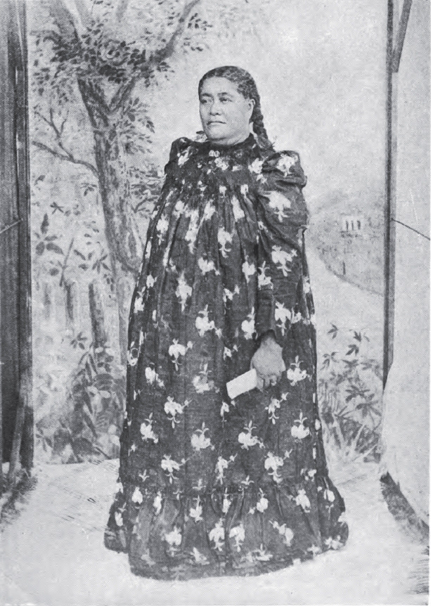 Makea Takau, Ariki of Teauotonga (Rarotonga). Height 6 ft. 4 in. Caption : Queen Makea, Cook Islands, Height 6 ft 4 in.